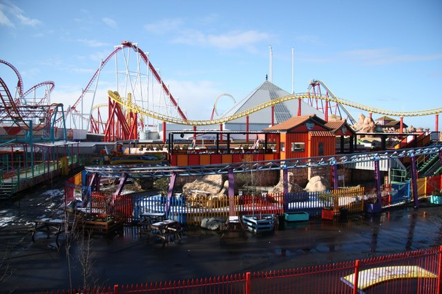 Fantasy Island Quiet winter scene at Fantasy Island amusement park